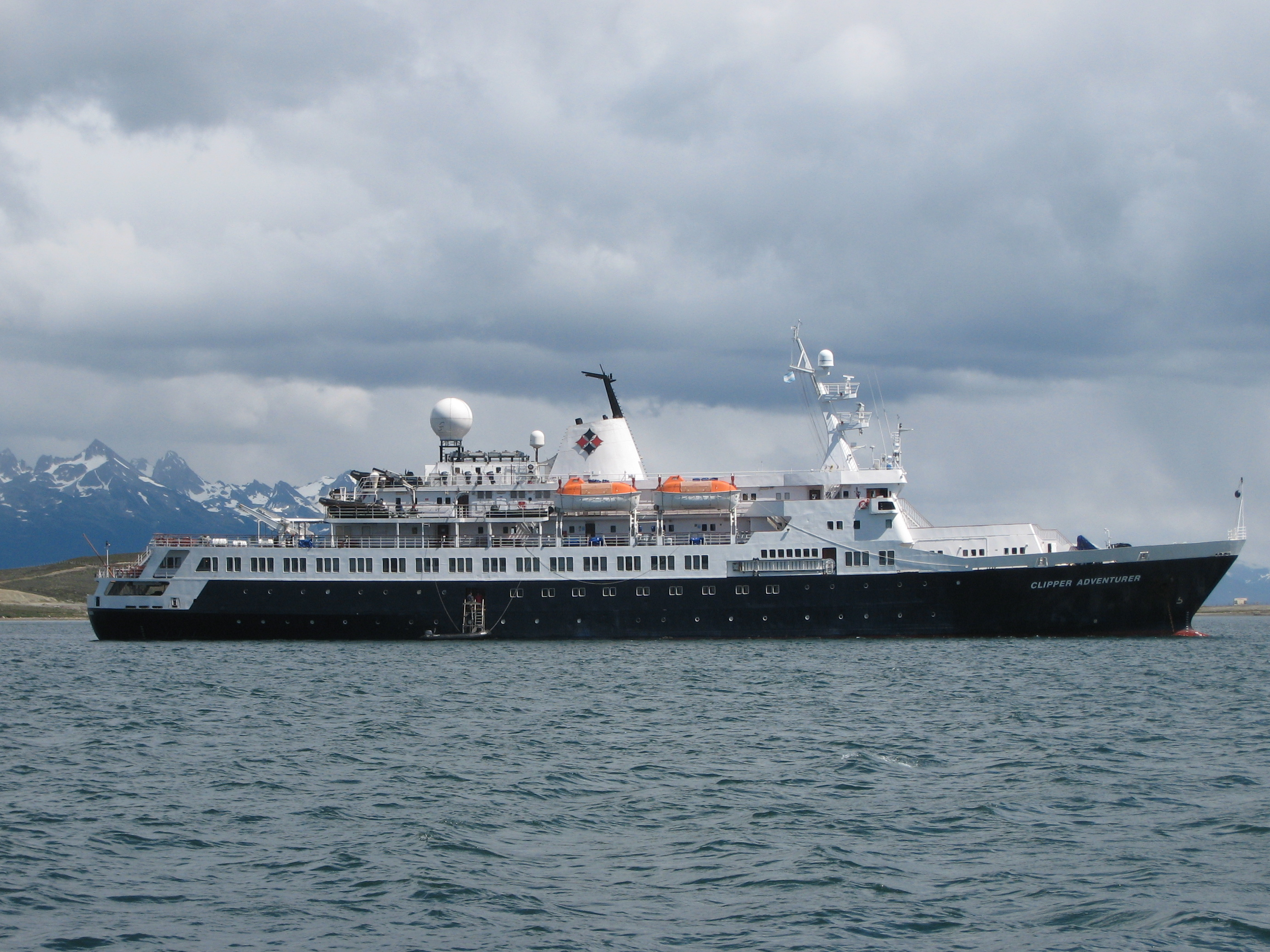 Clipper Adventurer, outside Ushuaia.